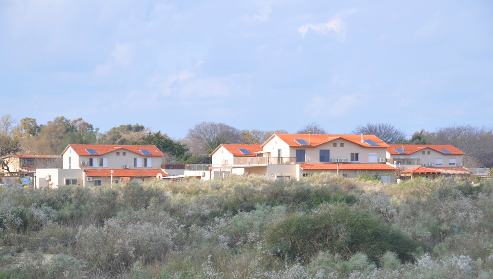 Geography of Israel